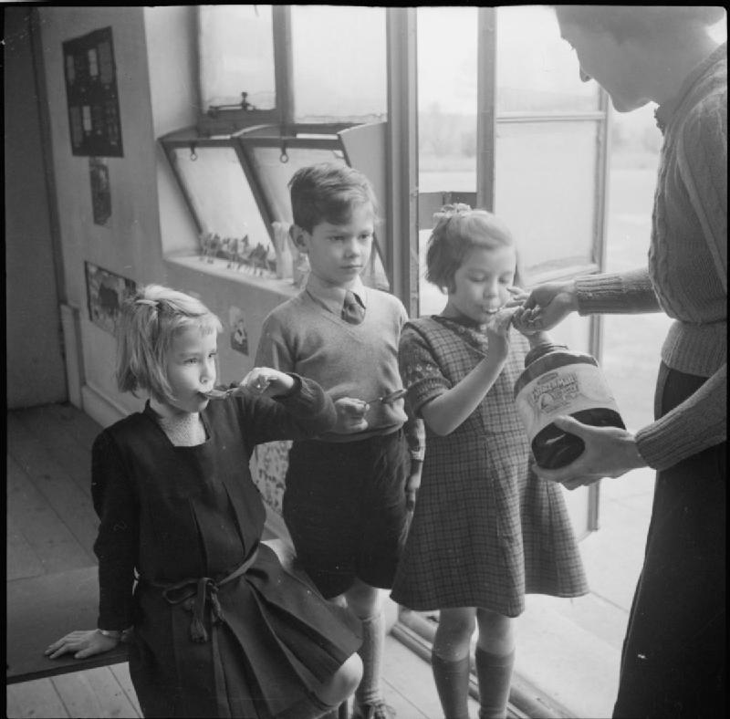 A Modern Village School- Education in Cambridgeshire, England, UK, 1944 During the morning break, three pupils receive spoonfuls of Extract of Malt and Cod Liver Oil from their teacher at Fen Ditton Junior School, Cambridgeshire.